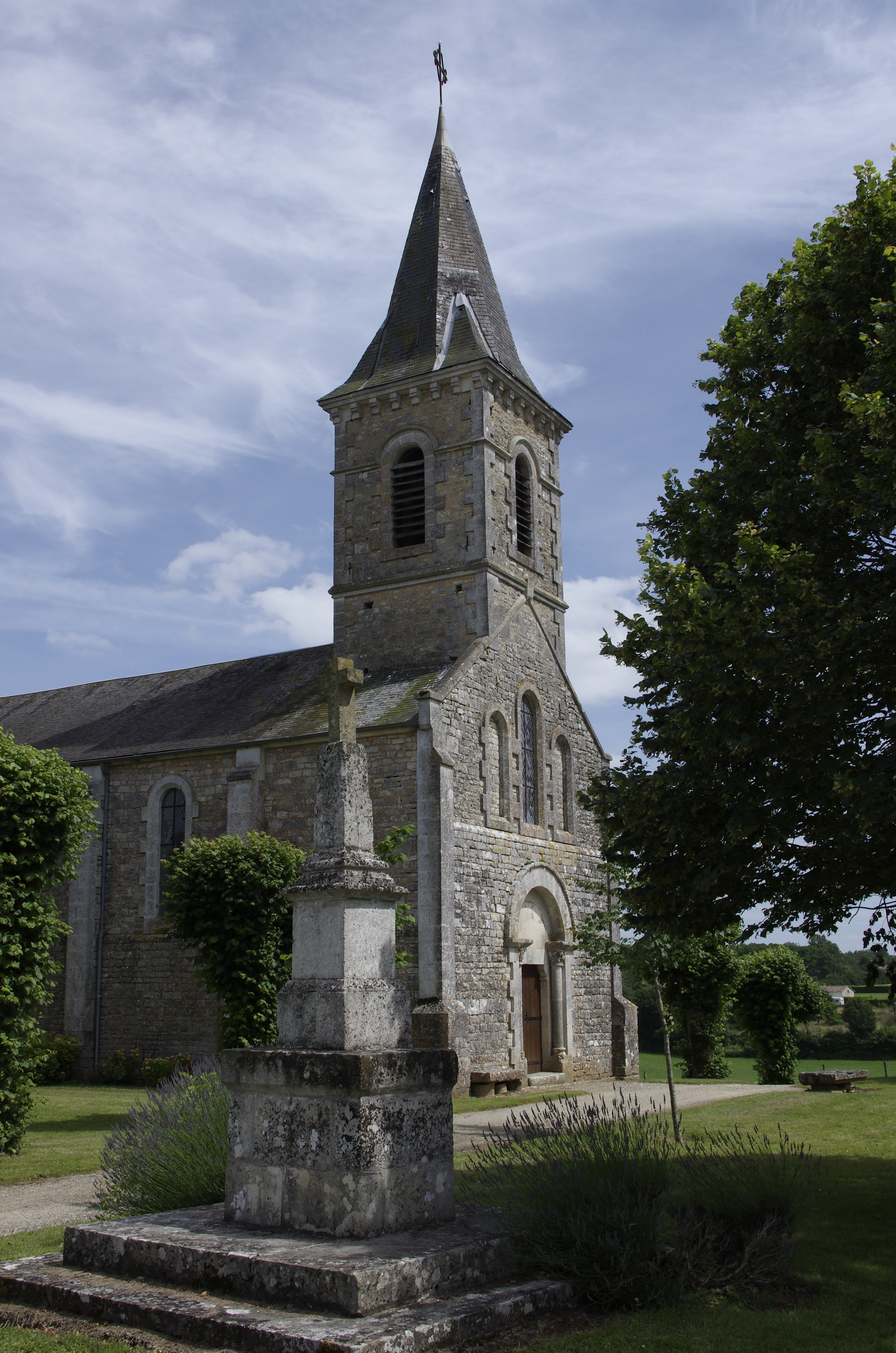 Façade of the church of Surin, Vienne, France.